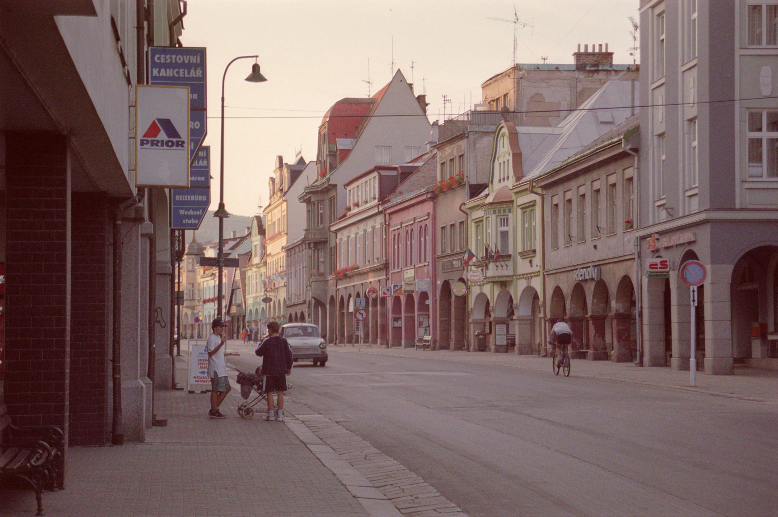 Vrchlabí - city in czech republic in Karkonosze self taken picture, taken in summer 1998 shows part of the city, main street